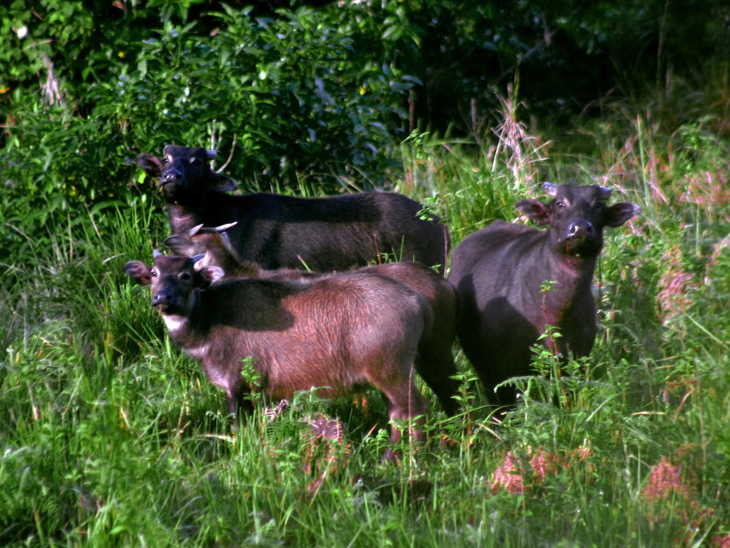 A small group of tamaraws (Bubalus mindorensis) stare at the camera. Taken in September 2012 by Gregg Yan.